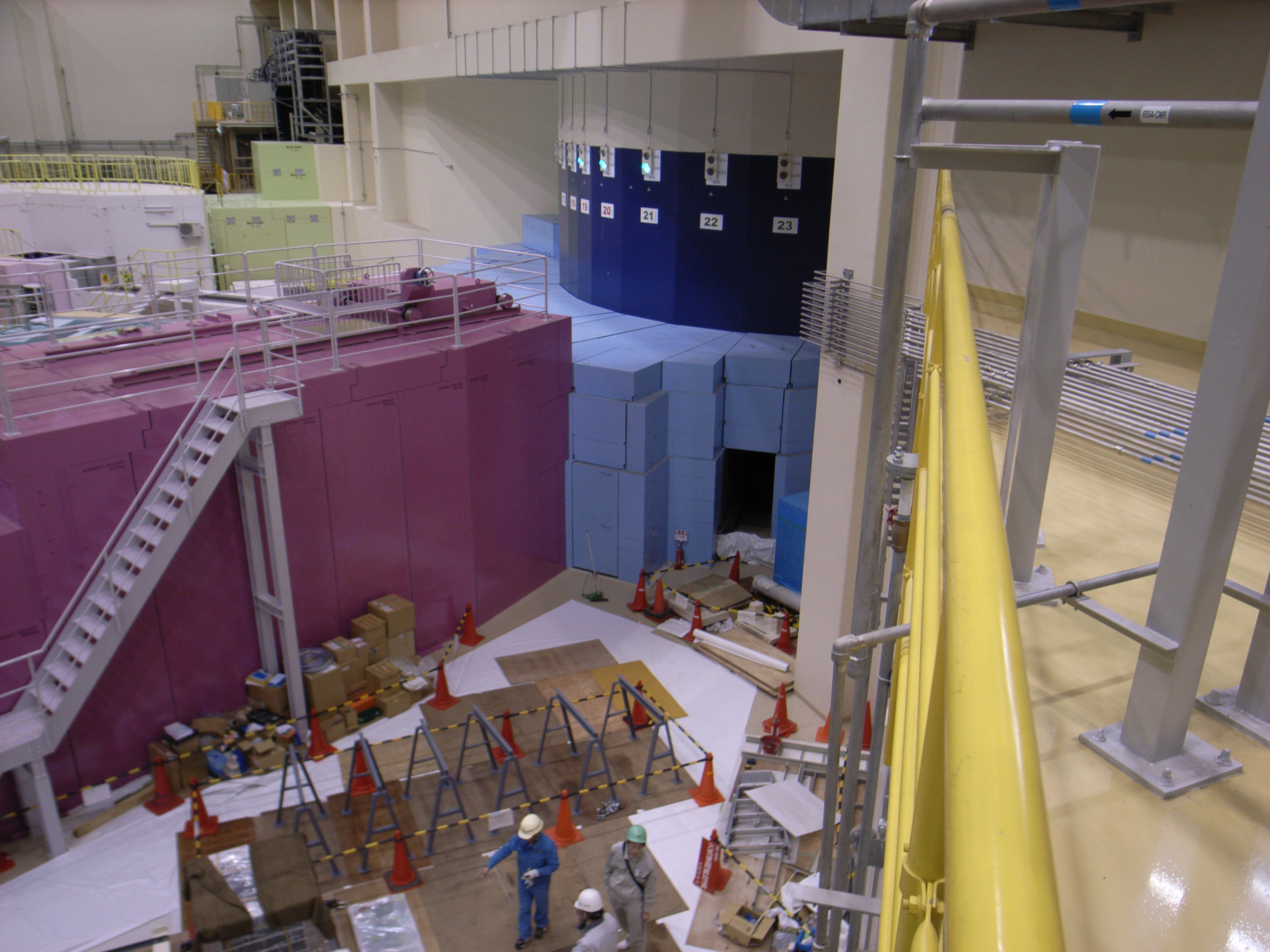 Neutron Target and Detector Area, Materials and Life Science Facility, J-PARC, Japan